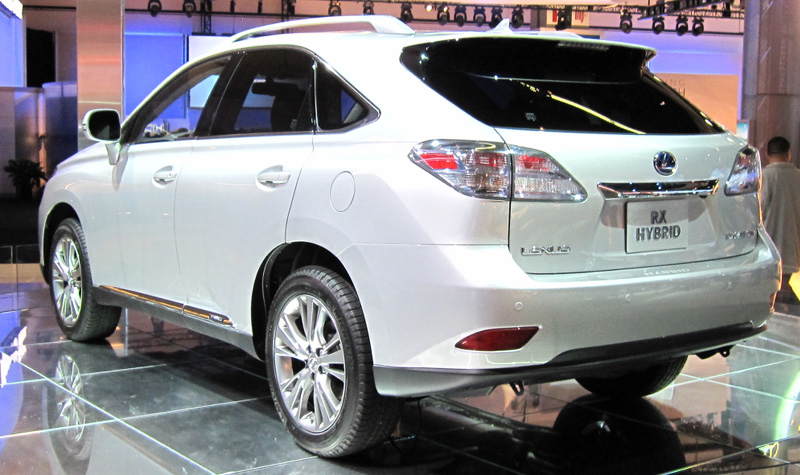 Lexus RX 450h, hybrid, at Los Angeles Auto Show